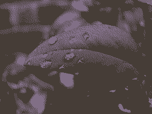 Illustration at 1 bit. [In case anyone's curious, the 2 colors are (70,61,55) & (129,111,134)]